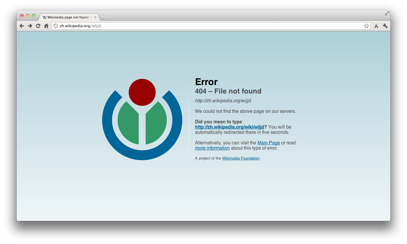 The 404 error of Wikipedia.